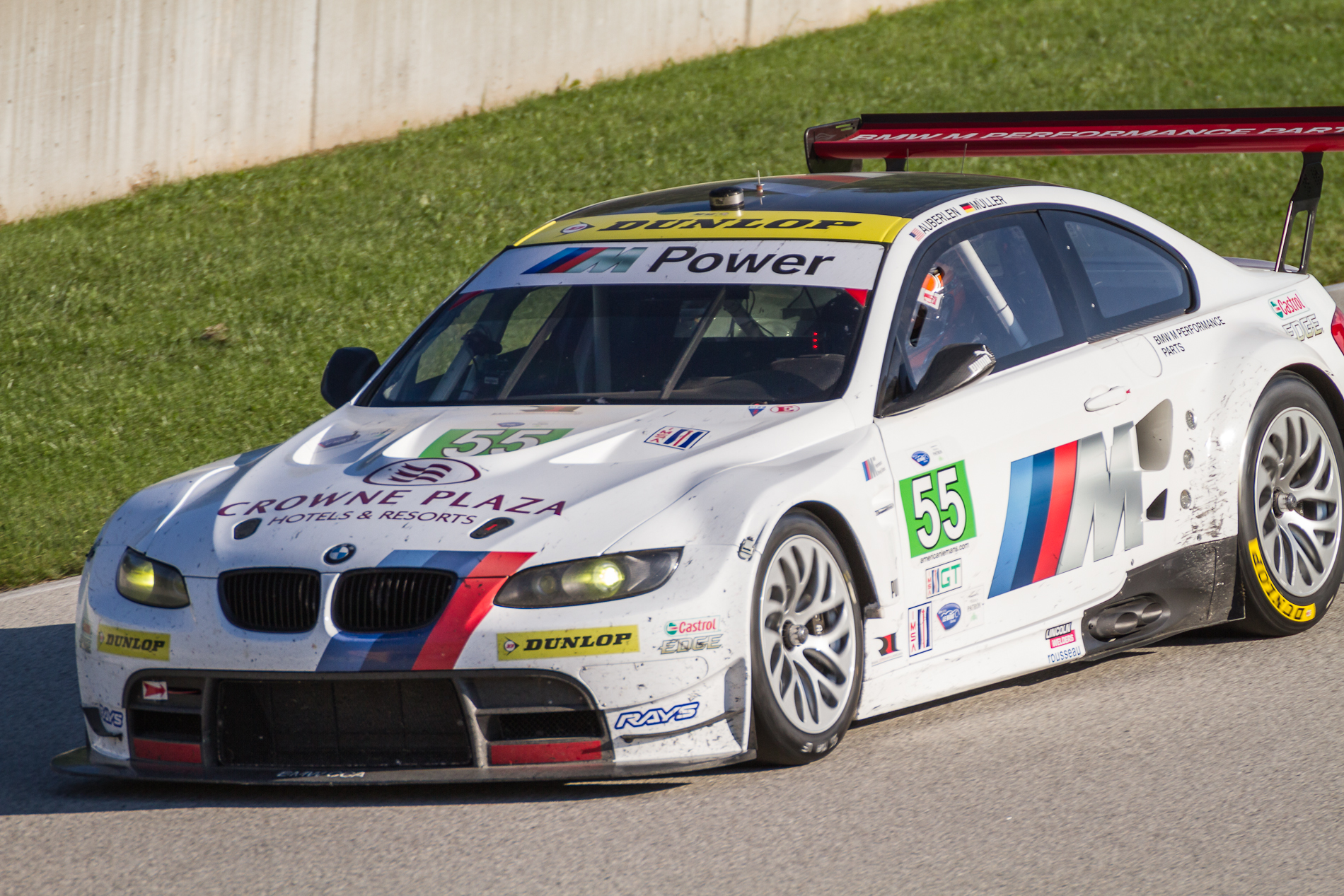 Bill Auberlen in the BMW Team RLL BMW M3 GT2 at the 2012 Road Race Showcase